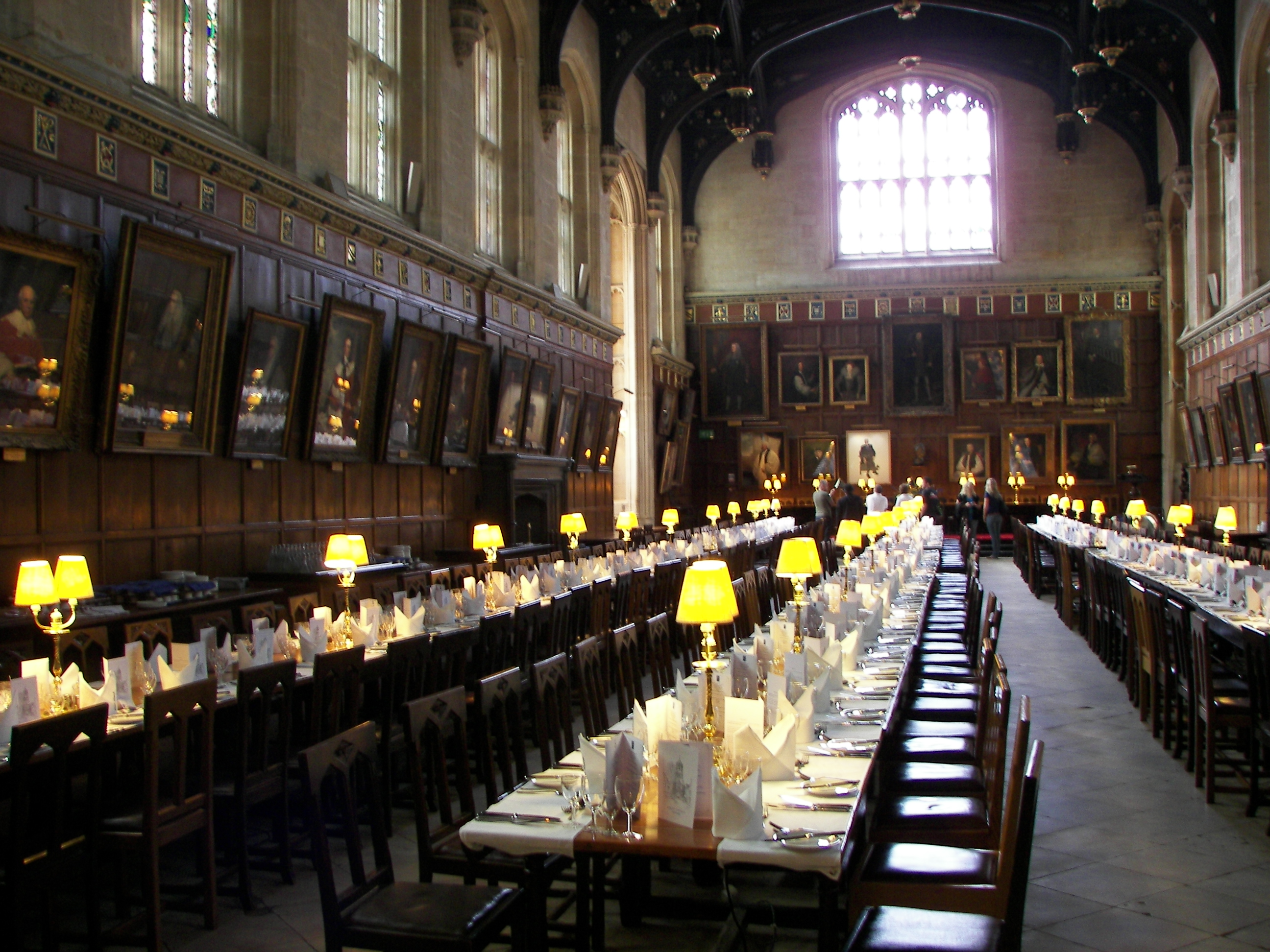 The Dining Hall of Christ Church Oxford, dressed up for some event.